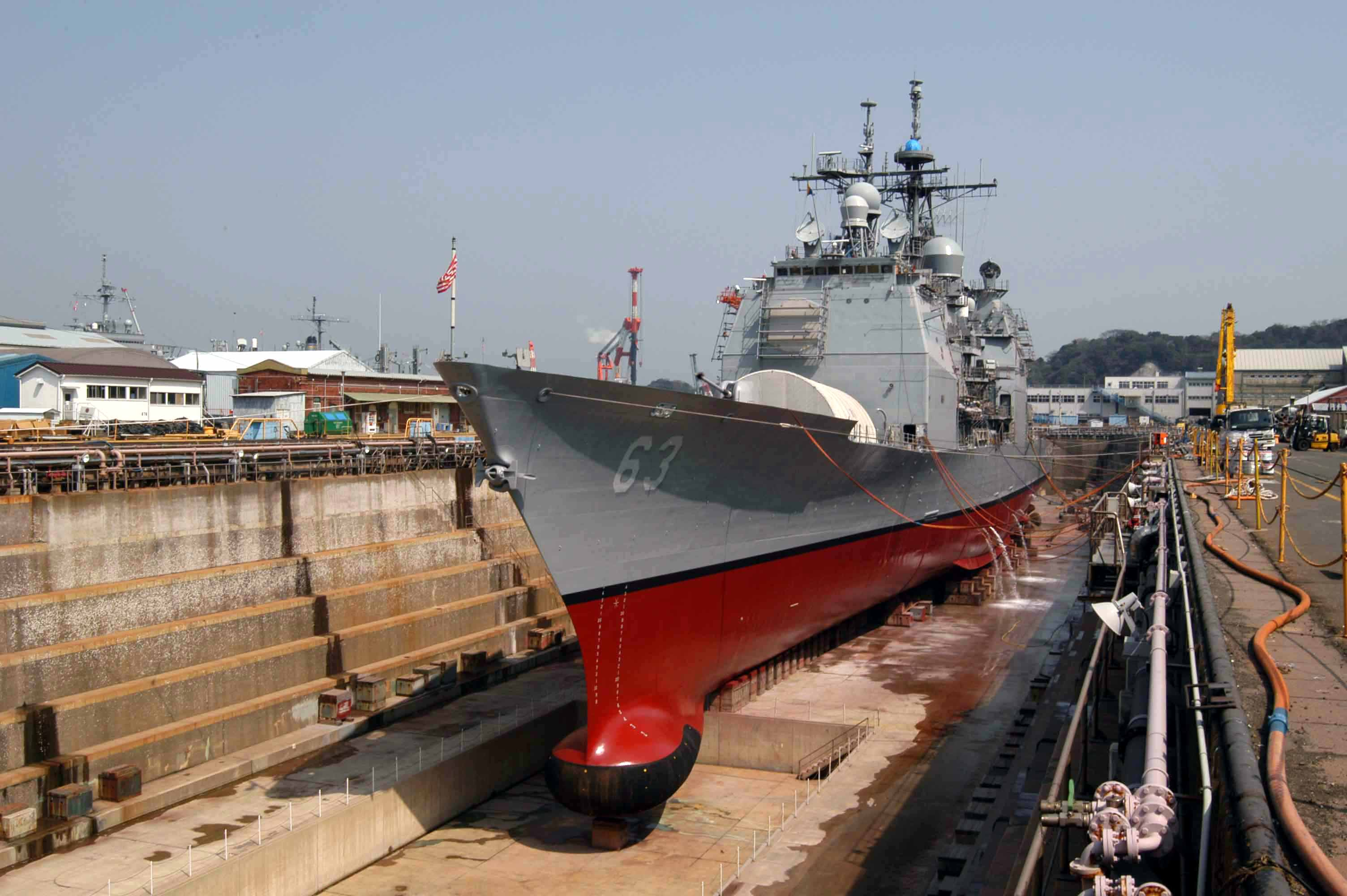 Yokosuka, Japan (Mar. 16, 2004) - The guided missile cruiser USS Cowpens (CG 63) at the completion of its Ship's Repair Force (SRF) dry dock period in Yokosuka, Japan. The Ticonderoga class cruiser is forward deployed to Yokosuka. U.S. Navy photo by Photographer's Mate 1st Class Alan Warner (RELEASED)